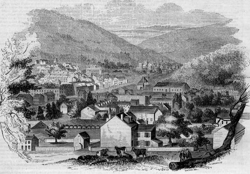 View of Pottsville, Pennsylvania; an engraving published October 1854 in Gleason's Pictorial Drawing Room Companion, Boston, Massachusetts.